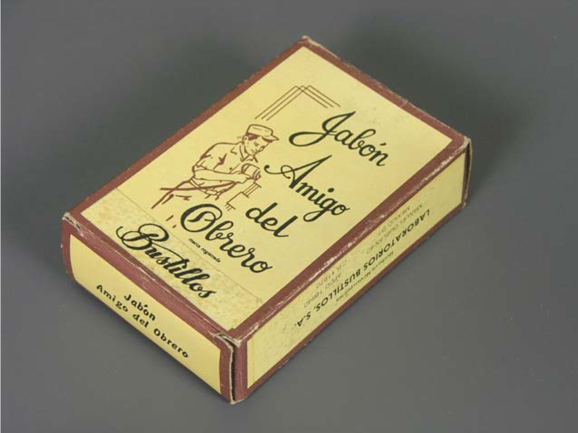 Box for Amigo del Obrero brand soap from Mexico from second half of the 20th century